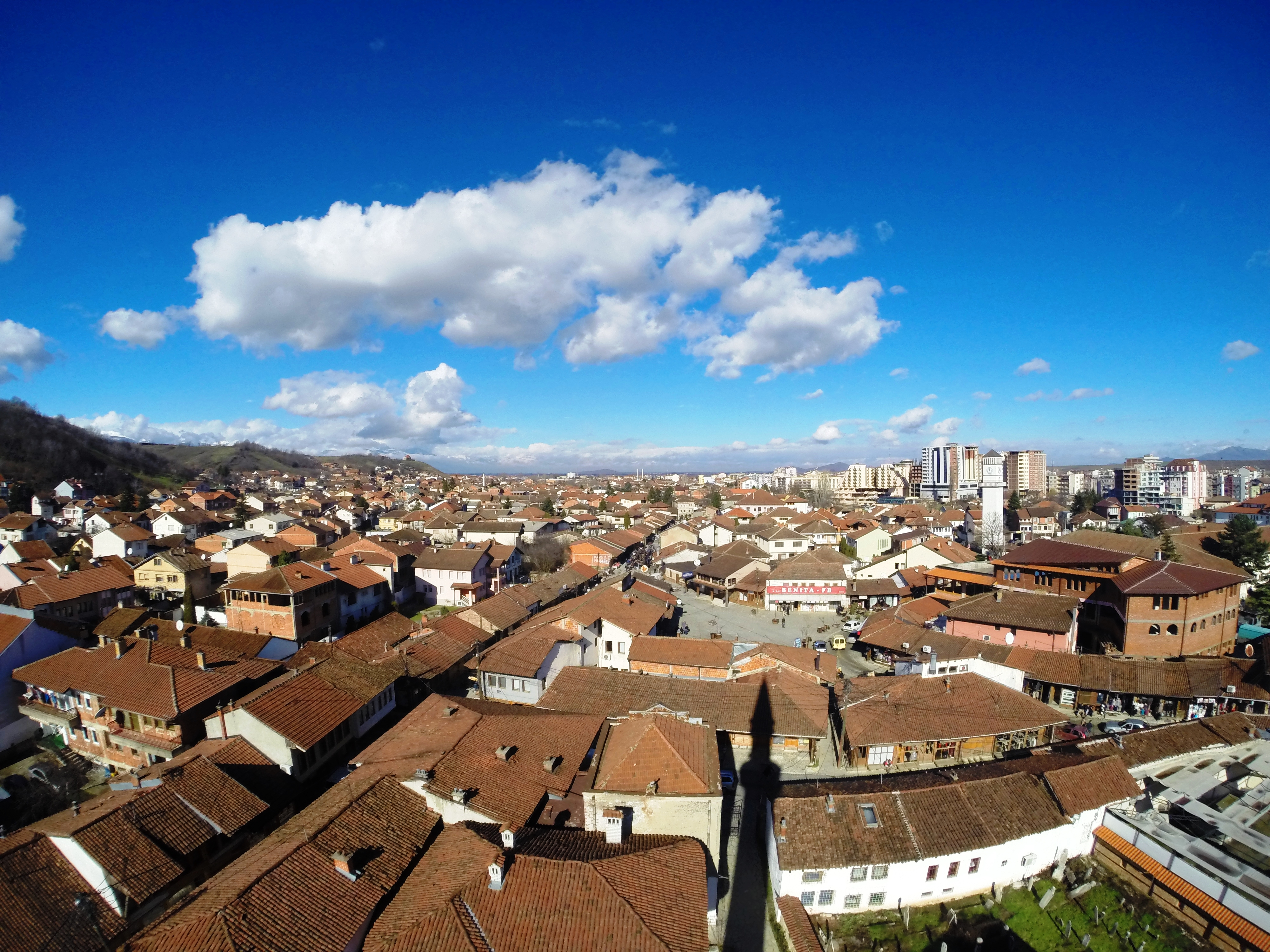 For the first time, in medieval period, Gjakova is mentioned as a village, a market place in 1485. In 1662 Gjakova is mentioned for the first time as a city from ottoman chronic writer ( guide ) Evlia Çelebi, which wrote: " Jakova has two thousand houses that are decorated and situated at a wide lead. Has a beutiful " Hamam " ( public bath ) that makes your hart joyful and about three hundred shops with one thousand skills. Since the climate is lovely, the inhabitants are beautiful and pleasant "